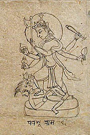 Parshuram, Book of Iconographic Drawings, late 19th - early 20th century Book/manuscript; Drawing, Ink on paper, 5 1/2 x 11 3/8 x 1/2 in. (13.97 x 28.89 x 1.27 cm) Made in: Nepal from LACMA[1]